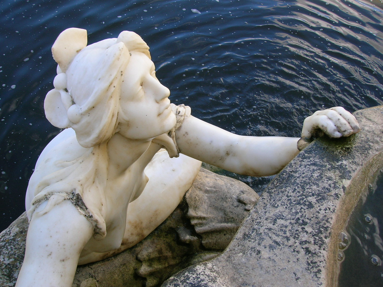 Fountain, Italian gardens, Hever castle